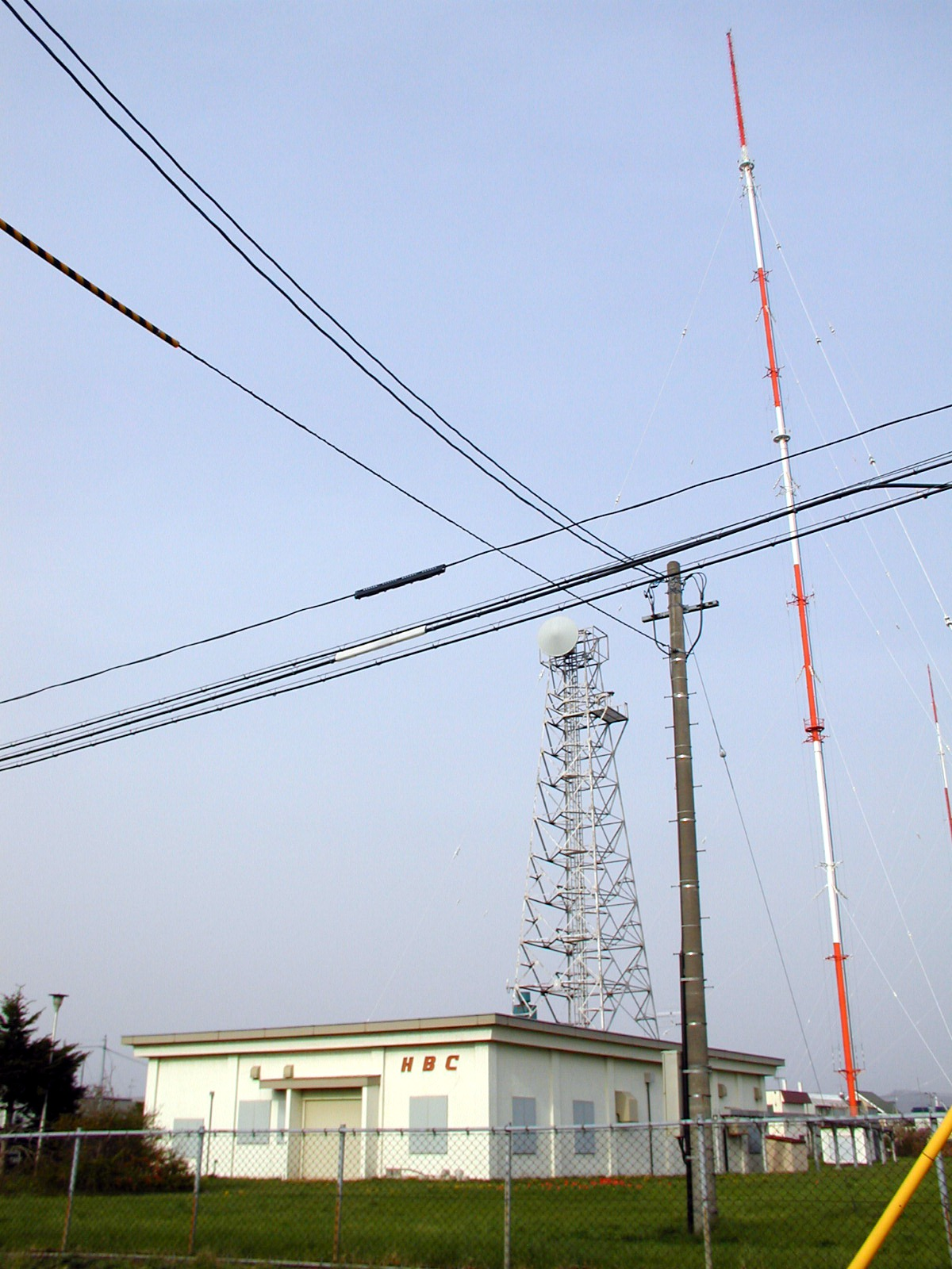 HBC East-Asahikawa transmitter station, in Hokkaido, Japan